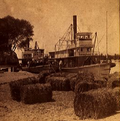 Steamboats on the Colorado River, at Yuma, ca 1880. Published as a "Rothrock's Arizona Scenery" stereophoto card, ca. 1880.